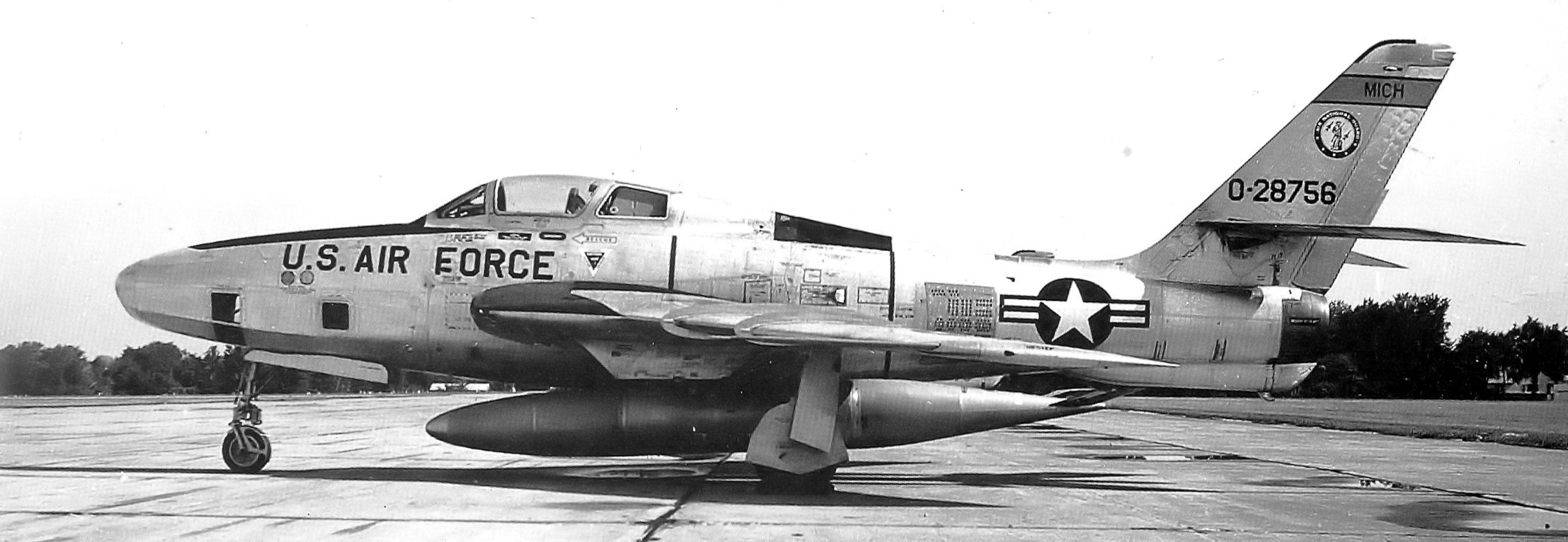 171st Tactical Reconnaissance Squadron Republic RF-84F-36-RE Thunderflash 52-8756 (Yellow Tail Flash). Retired 1971 and sold to Taiwan.